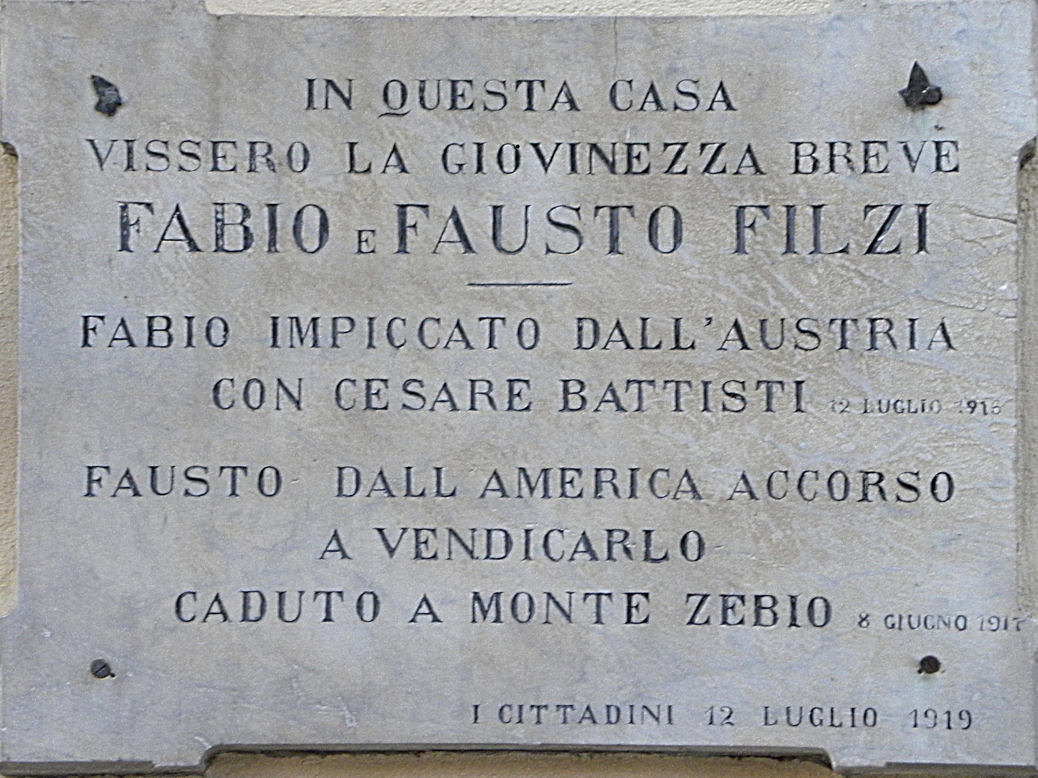 lapide fausto filzi